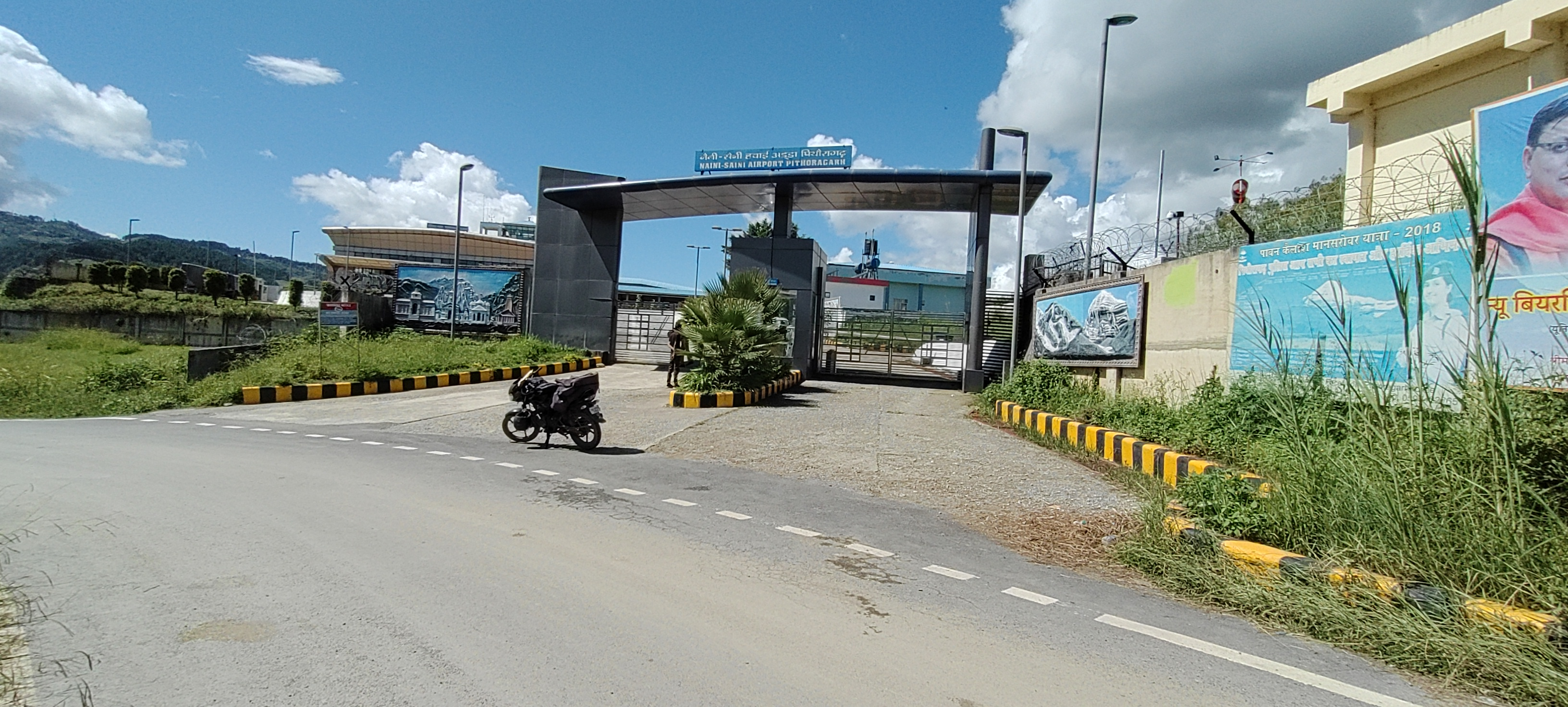 Naini Saini Airport Pithoragarh Uttarakhand india